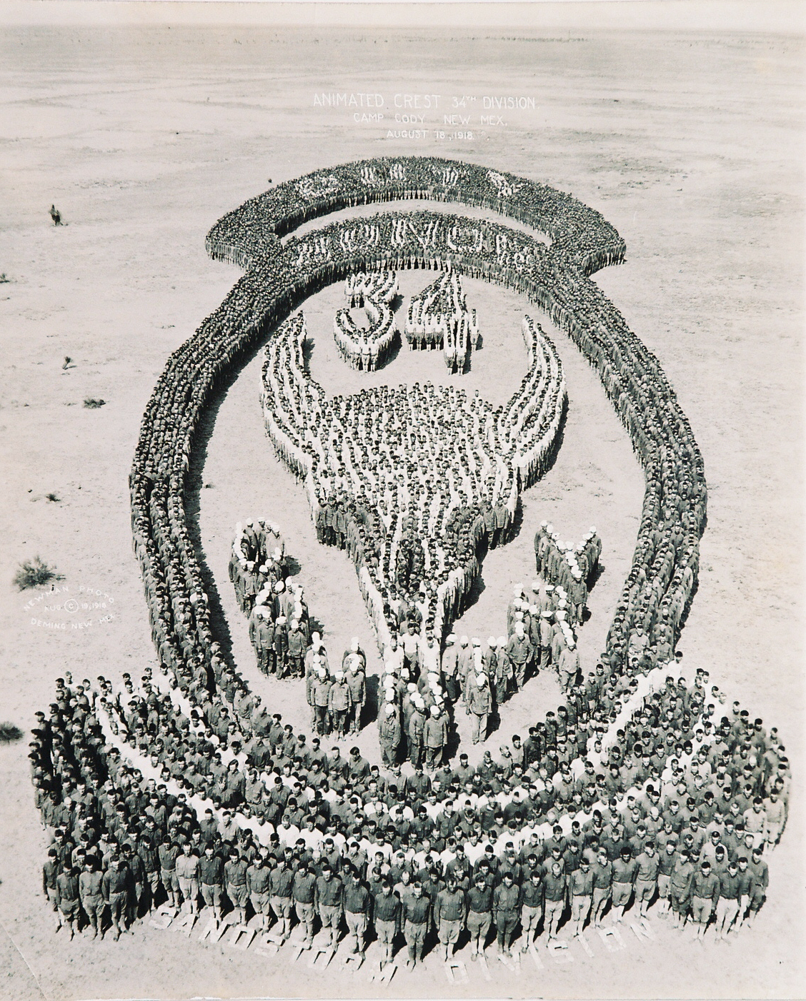 Soldiers of the 34th Infantry Division in an animated crest at Camp Cody, NM.